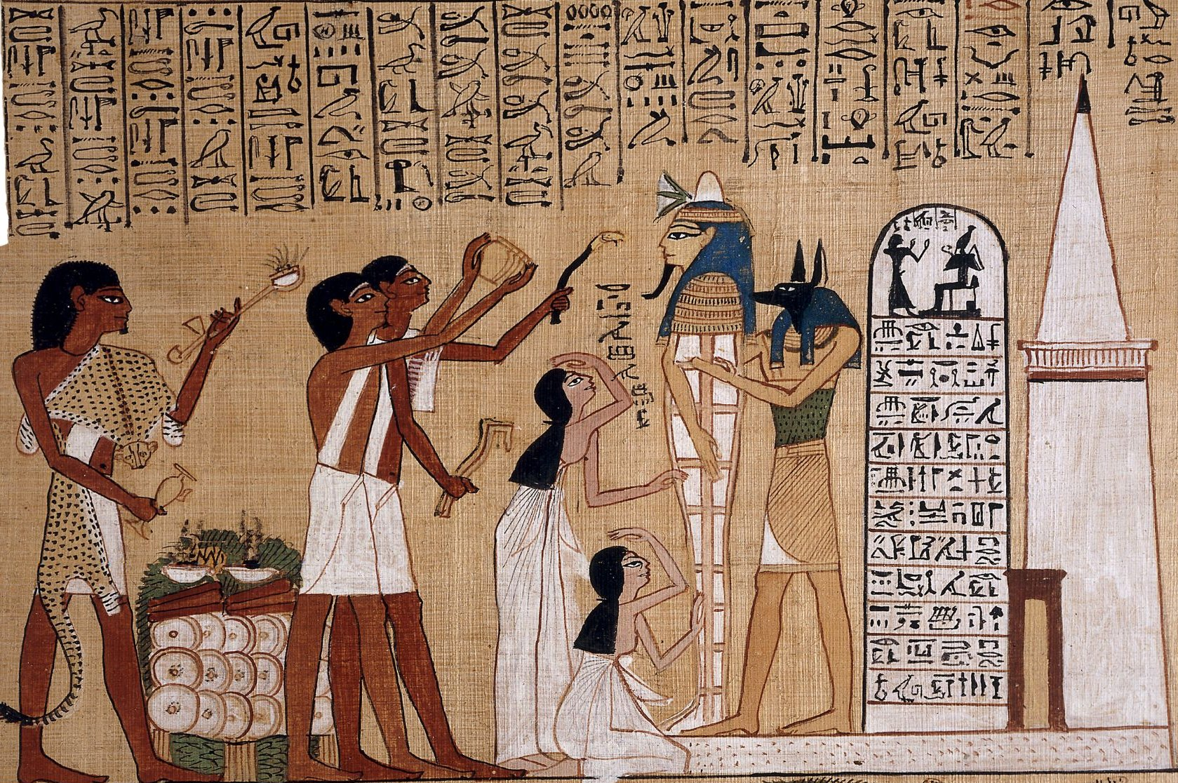 This is an excellent example of one of the many fine vignettes (illustrations) from the Book of the Dead of Hunefer. The centrepiece of the upper scene is the mummy of Hunefer, shown supported by the god Anubis (or a priest wearing a jackal mask). Hunefer's wife and daughter mourn, and three priests perform rituals. The two priests with white sashes are carrying out the Opening of the Mouth ritual. The white building at the right is a representation of the tomb, complete with portal doorway and small pyramid. Both these features can be seen in real tombs of this date from Thebes. To the left of the tomb is a picture of the stela which would have stood to one side of the tomb entrance. Following the normal conventions of Egyptian art, it is shown much larger than normal size, in order that its content (the deceased worshipping Osiris, together with a standard offering formula) is absolutely legible. At the right of the lower scene is a table bearing the various implements needed for the Opening of the Mouth ritual. At the left is shown a ritual, where the foreleg of a calf, cut off while the animal is alive, is offered. The animal was then sacrificed. The calf is shown together with its mother, who might be interpreted as showing signs of distress.